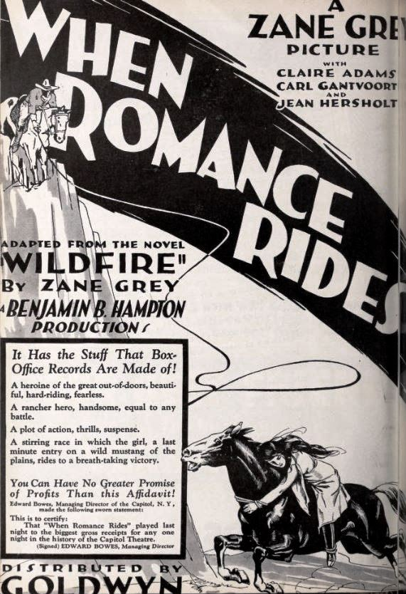 Advertisement for the American western film When Romance Rides (1922), on page 20 of the May 6, 1922 Exhibitors Herald.